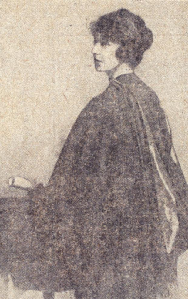 Madge Easton Anderson lawyer graduating (she did this last in 1920). Date unknown but guess 1920